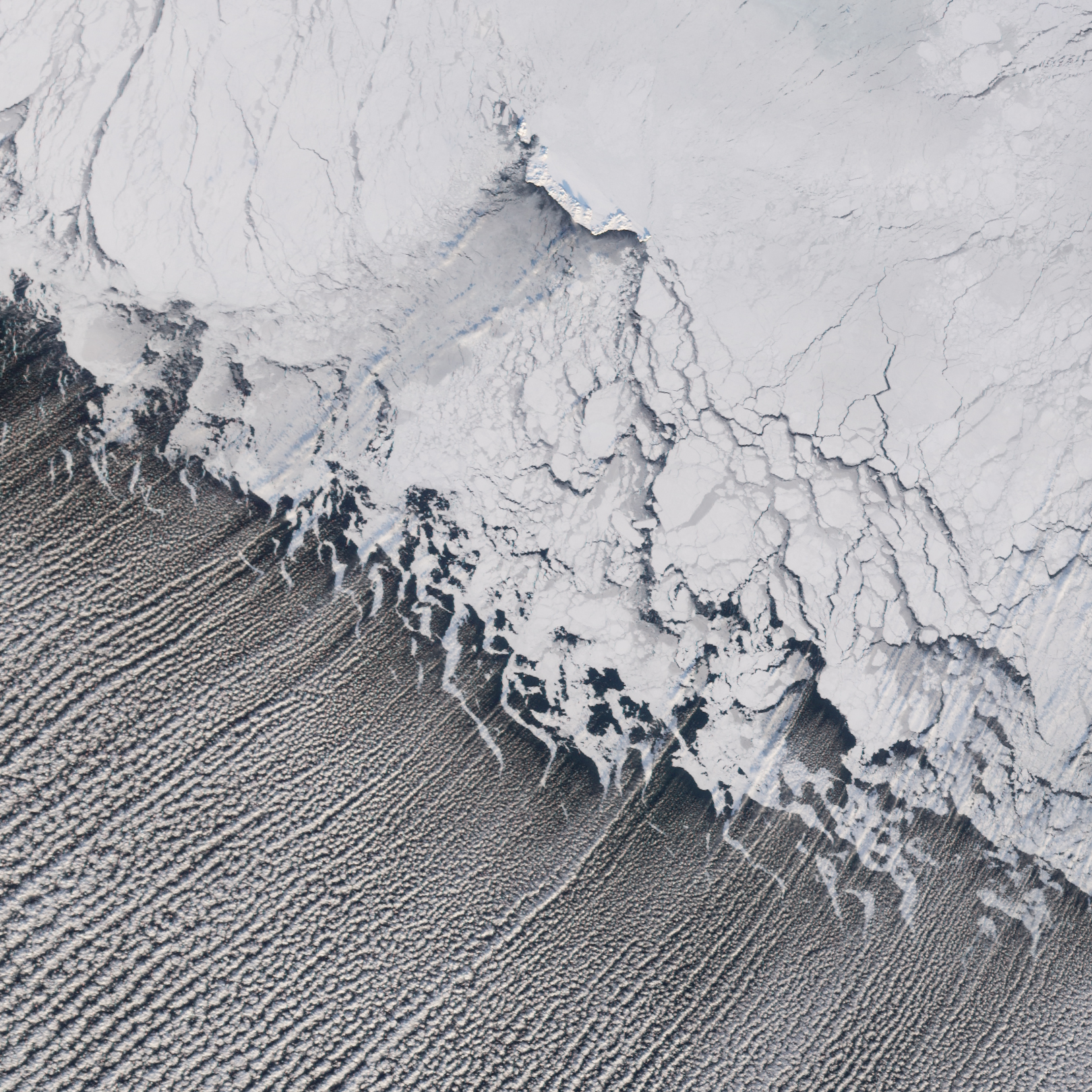 Satellite image of cloud streets in the Bering Sea. St. Matthew Island is visible in the upper portion, its mountains casting shadows to the southwest.